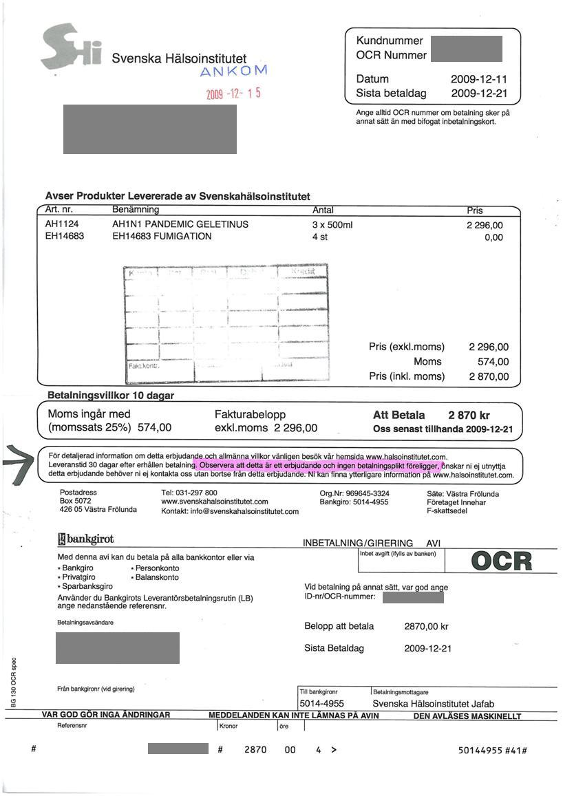 Swedish "Scam invoice"